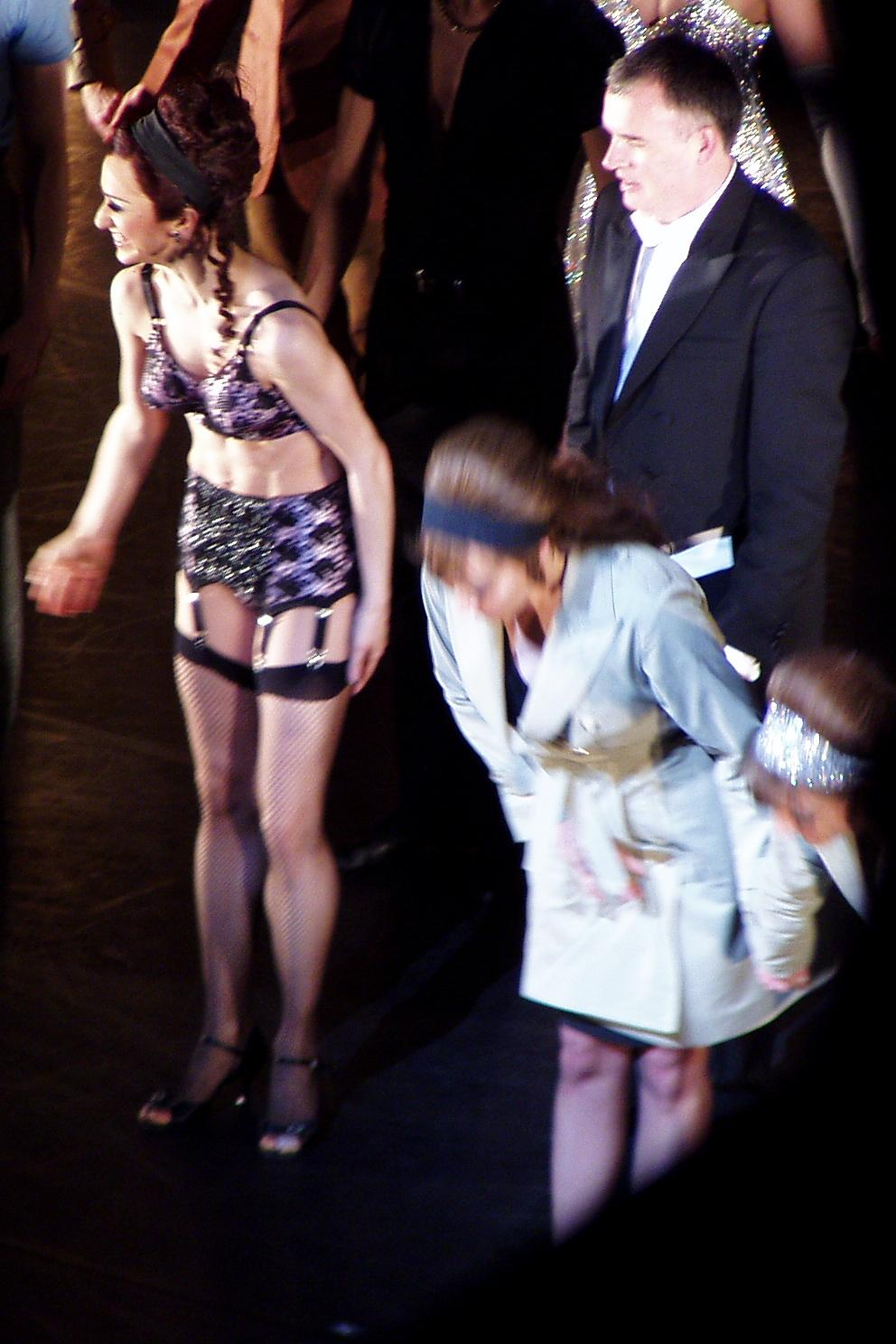 Author Scillystuff, source Flickr, url